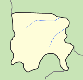 Map of Shusha district of Azerbaijan